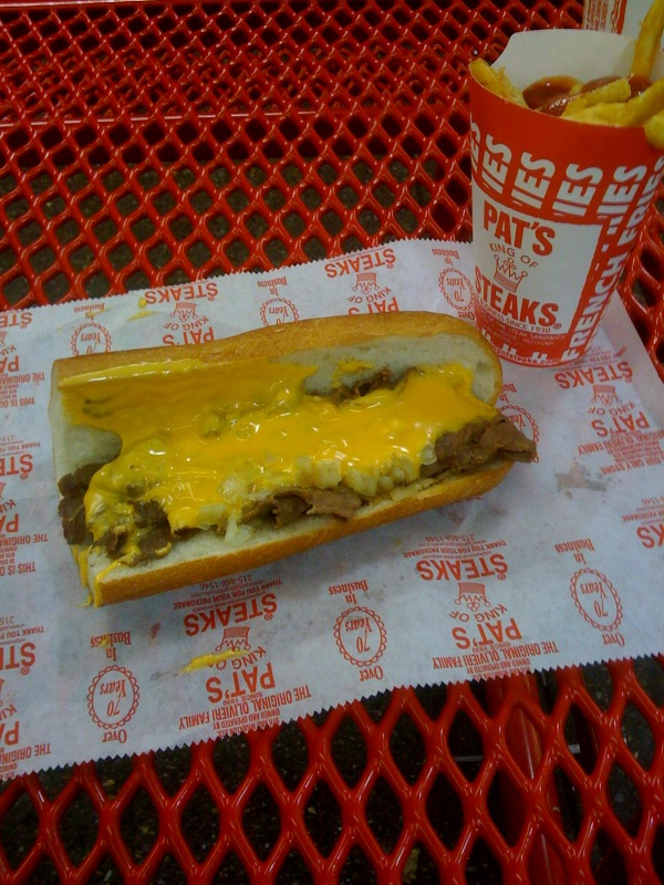 A cheesesteak sandwich from Pat's King of Steaks with Cheez Whiz and onions, or a "whiz wit," accompanied by fries.